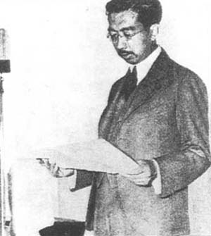 Emperor Hirohito to call for overcoming food shortage on radio